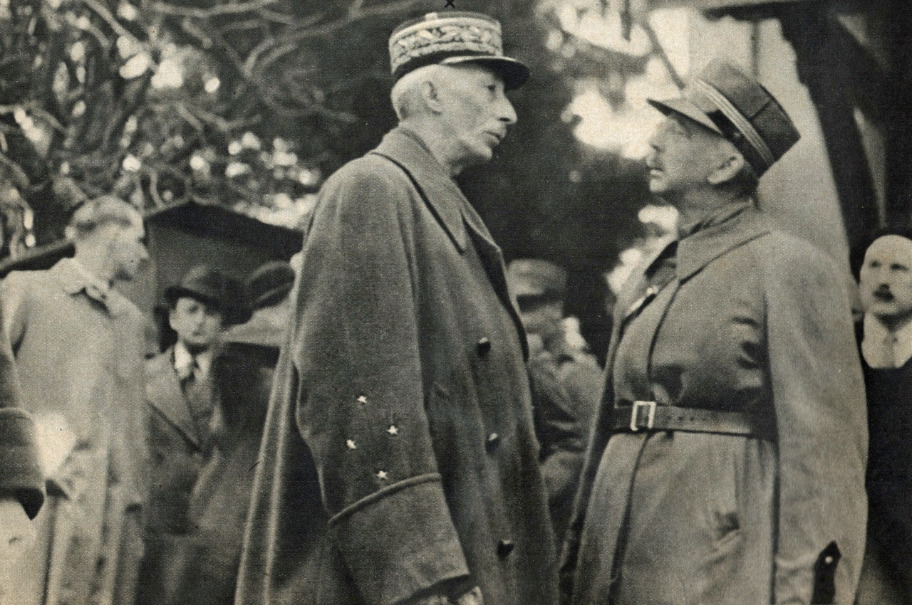 Officiers supérieurs